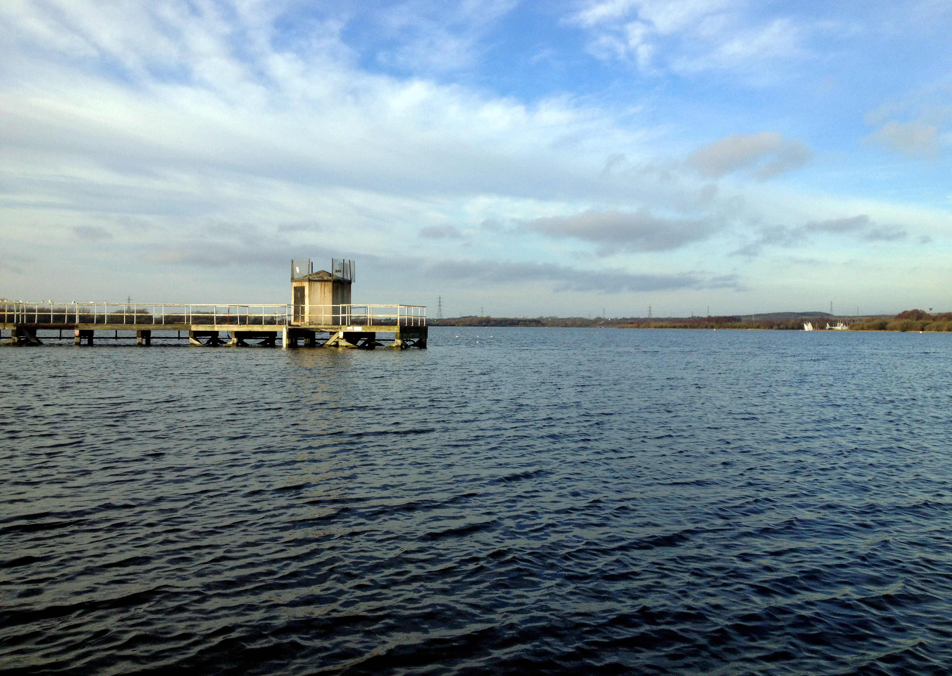 Chasewater in January 2012